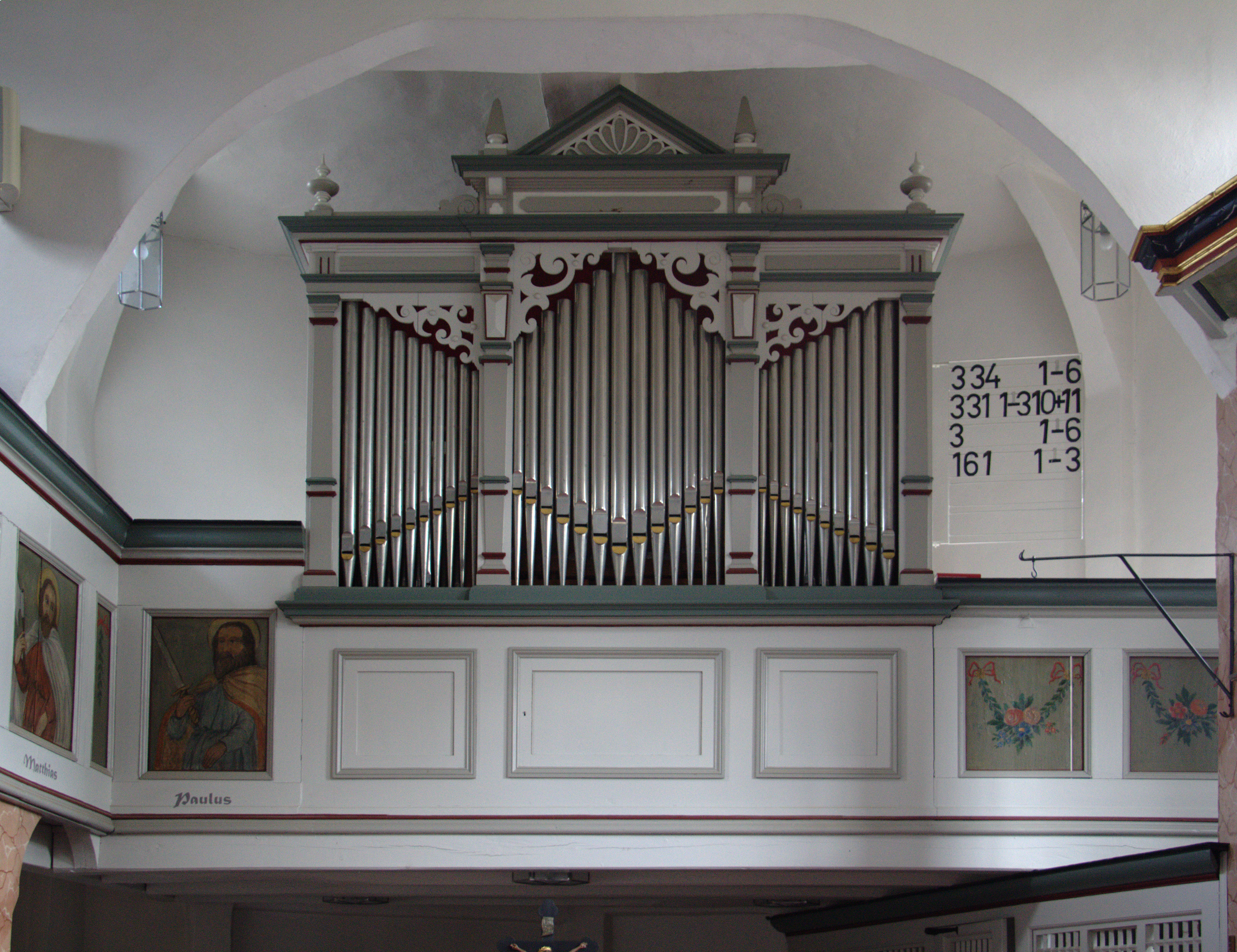 Protestant church (Detail:Organ) in Ulrichstein, Unter-Seibertenrod Eichwaldstrasse, Hesse, Germany